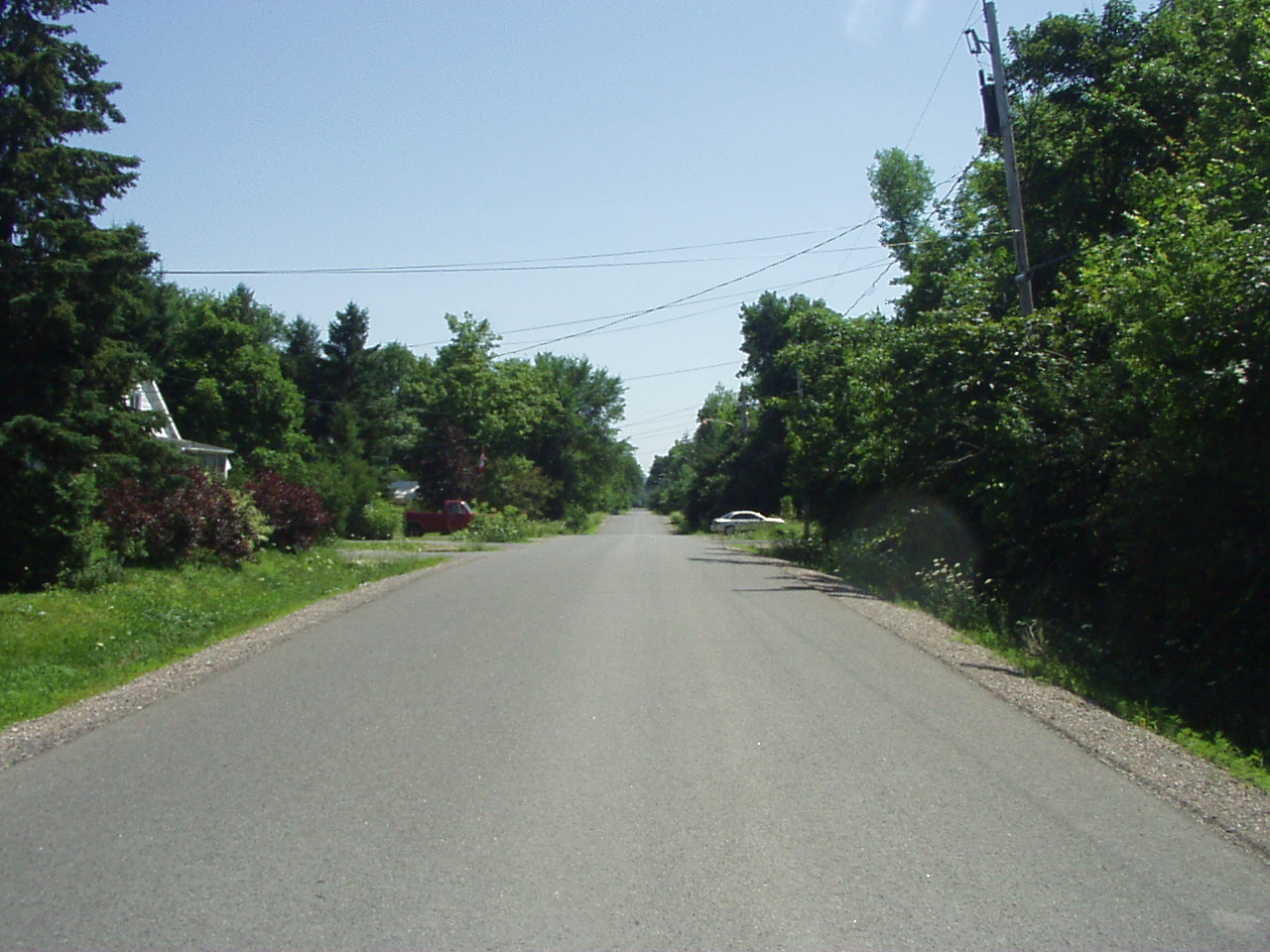 A picture taken by me, of Chemin Garden, Aylmer, Quebec.. summer 2005.